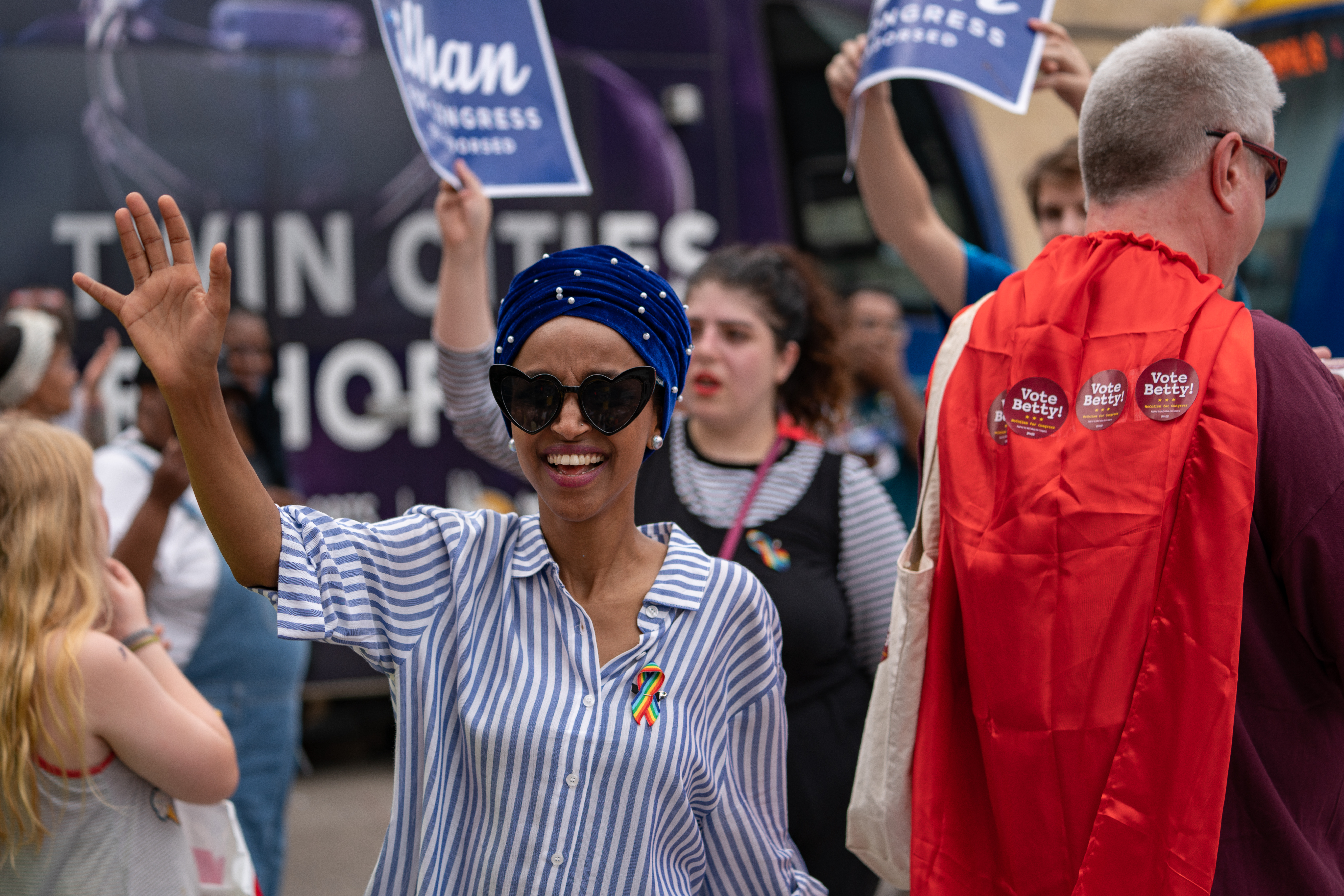 Twin Cities Pride Parade in Downtown Minneapolis, Minnesota, on June 24, 2018.